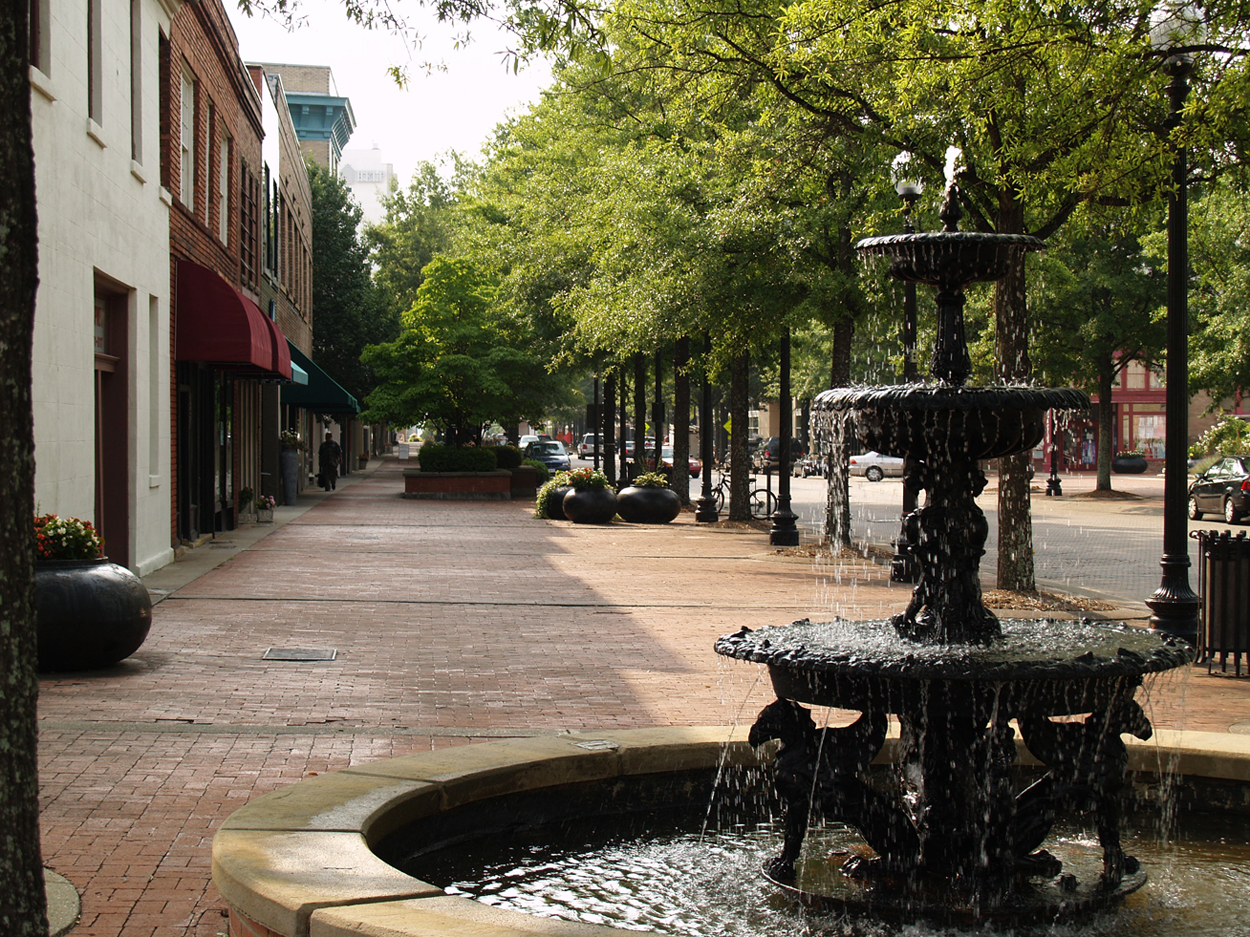 Hay Street, Downtown Fayetteville, North Carolina